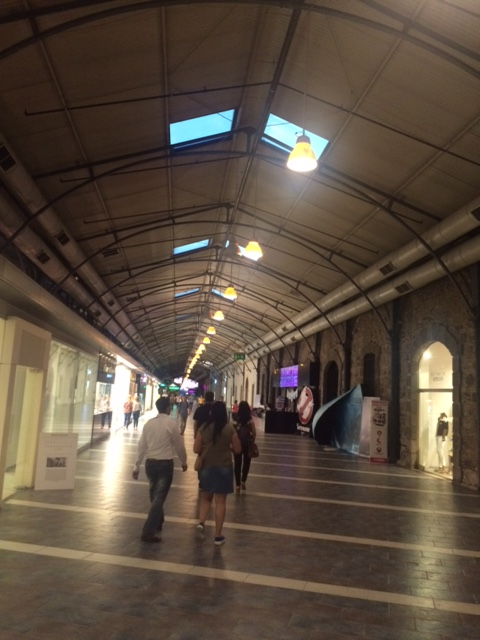 Konak Pier truss system